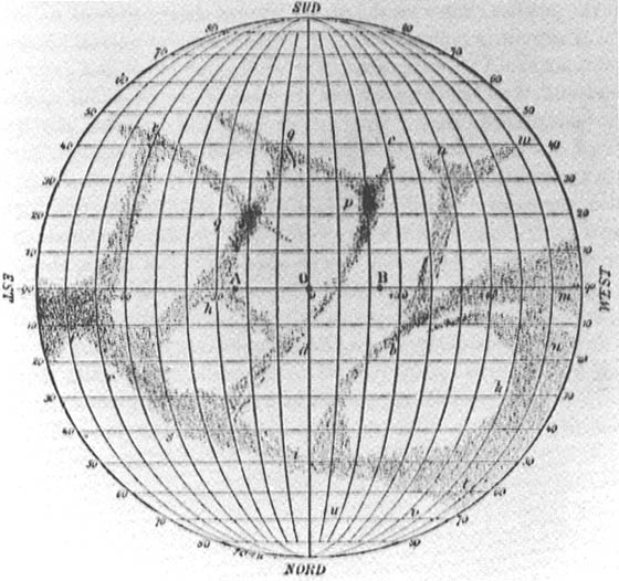 Map of Mercury by Giovanni Schiaparelli.